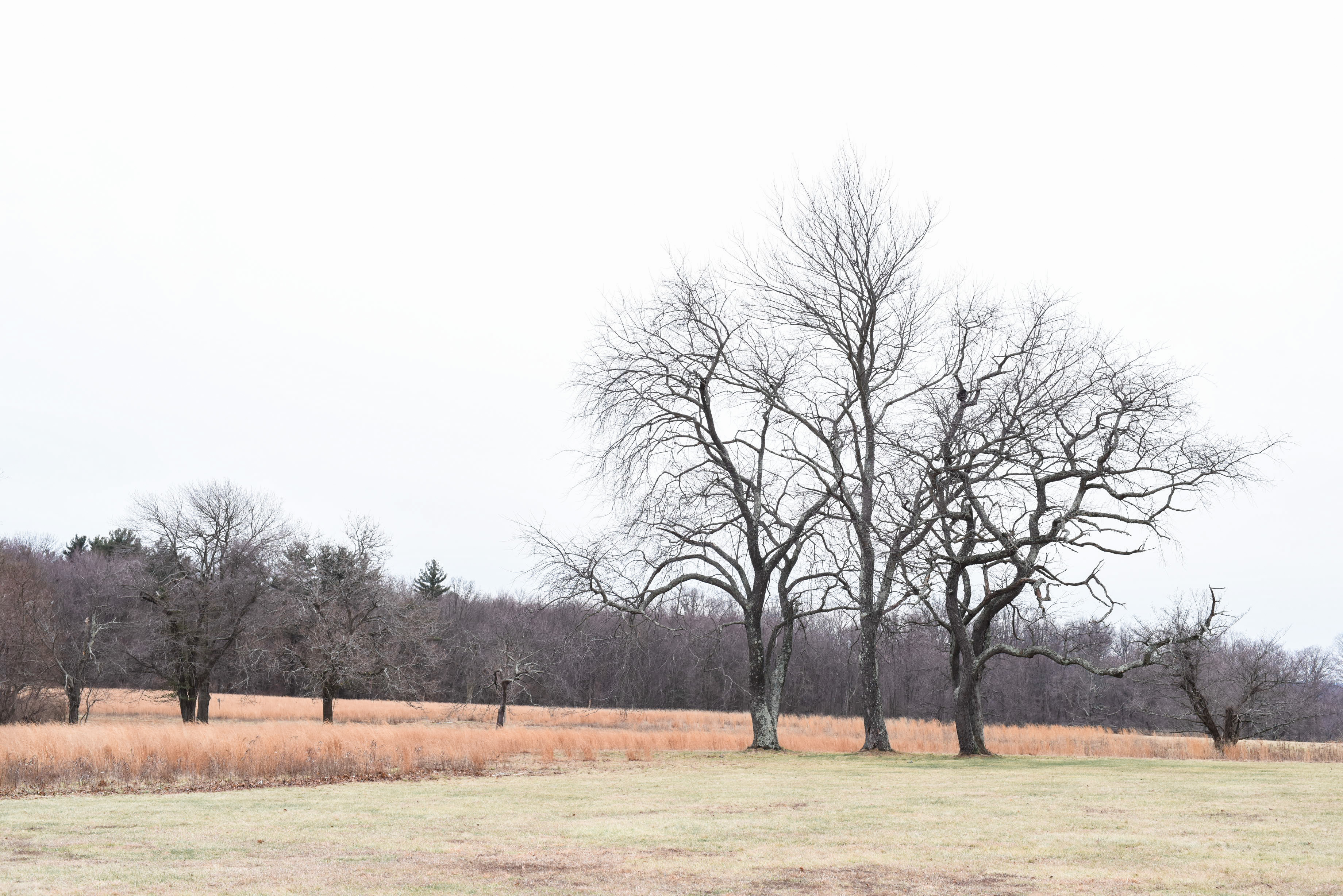 Waveny Park in New Canaan on 677 South Ave.